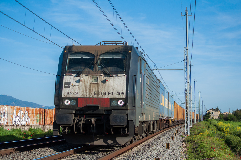 E189 405 rented by oceanogate hauls a freight train in Capannelle